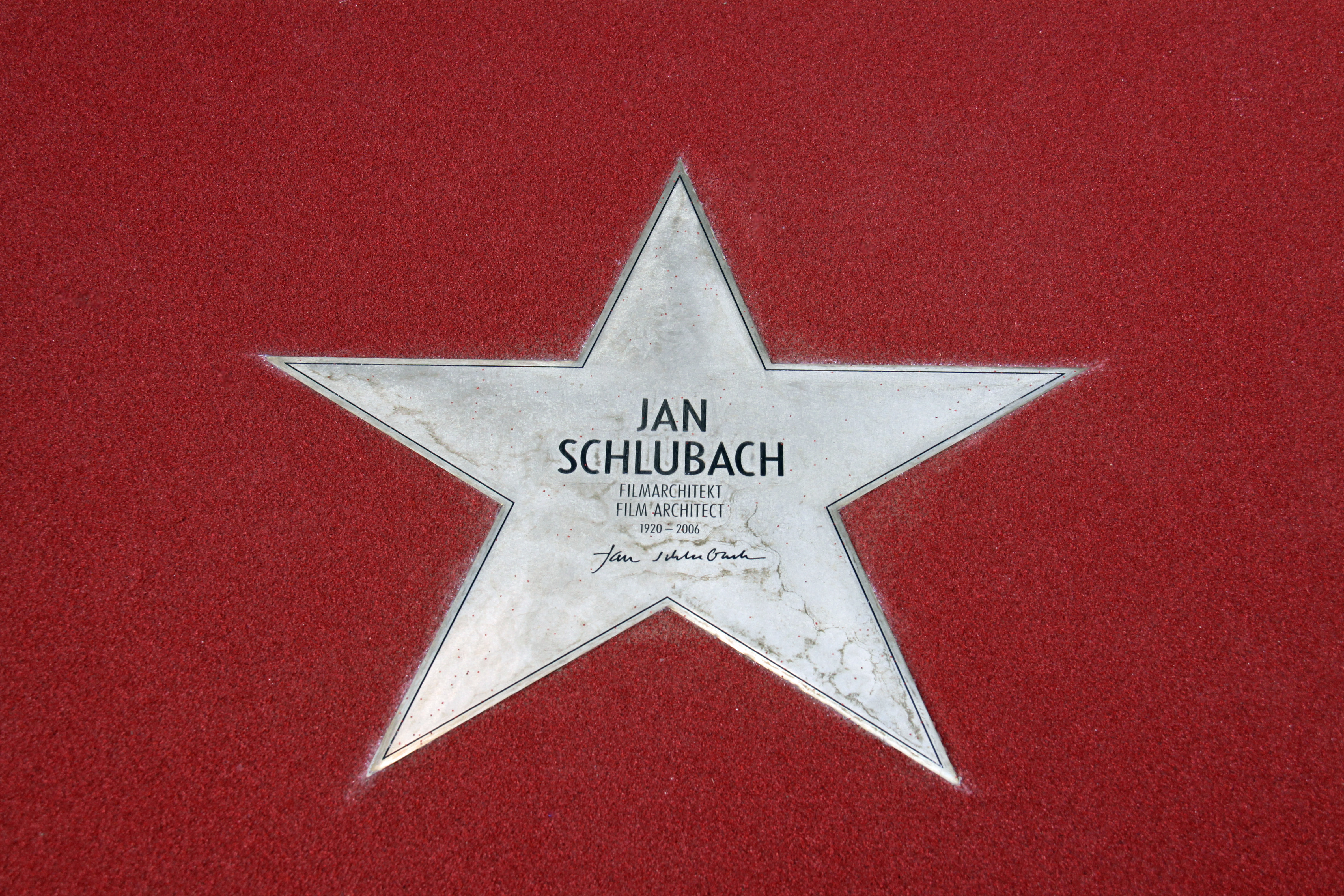 Star of Jan Schlubach at the "Boulevard der Sterne" in Berlin